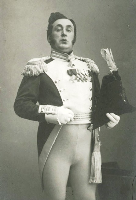 Sergey Golovin as Skalozub in «Sorrows of the Spirit» by Alexander Sergeyevich Griboyedov.